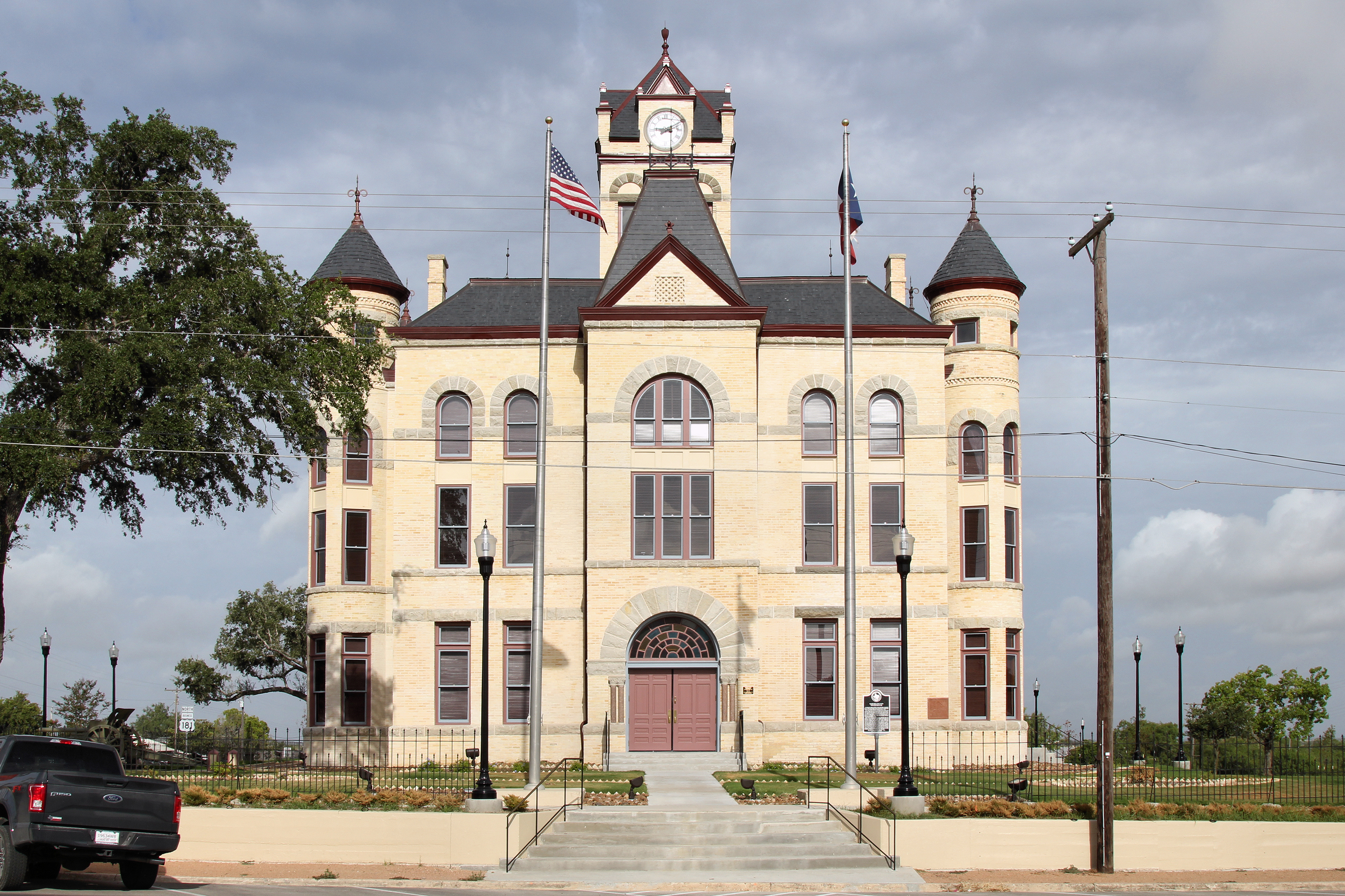 The Karnes County, Texas Courthouse in Karnes City, Texas United States. The courthouse was recently restored to its original (1894) appearance.